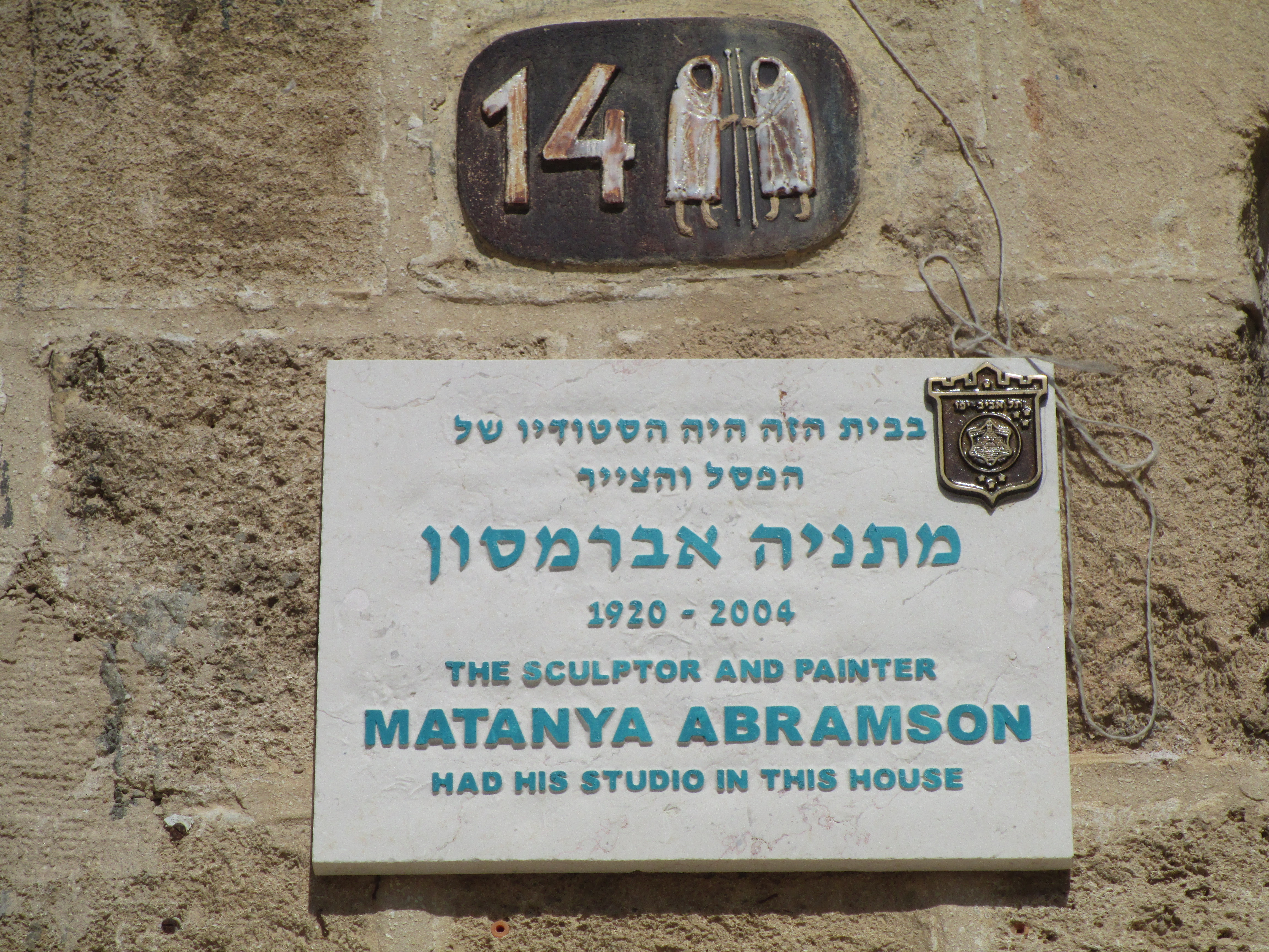 Old Jaffa, 14 kikar Kedumim